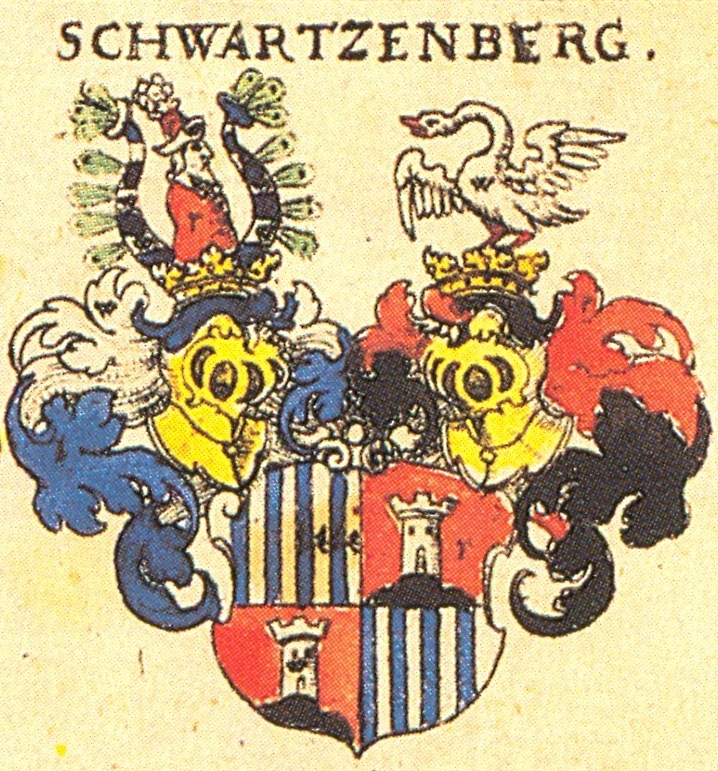 Coat of arms of Schwarzenberg